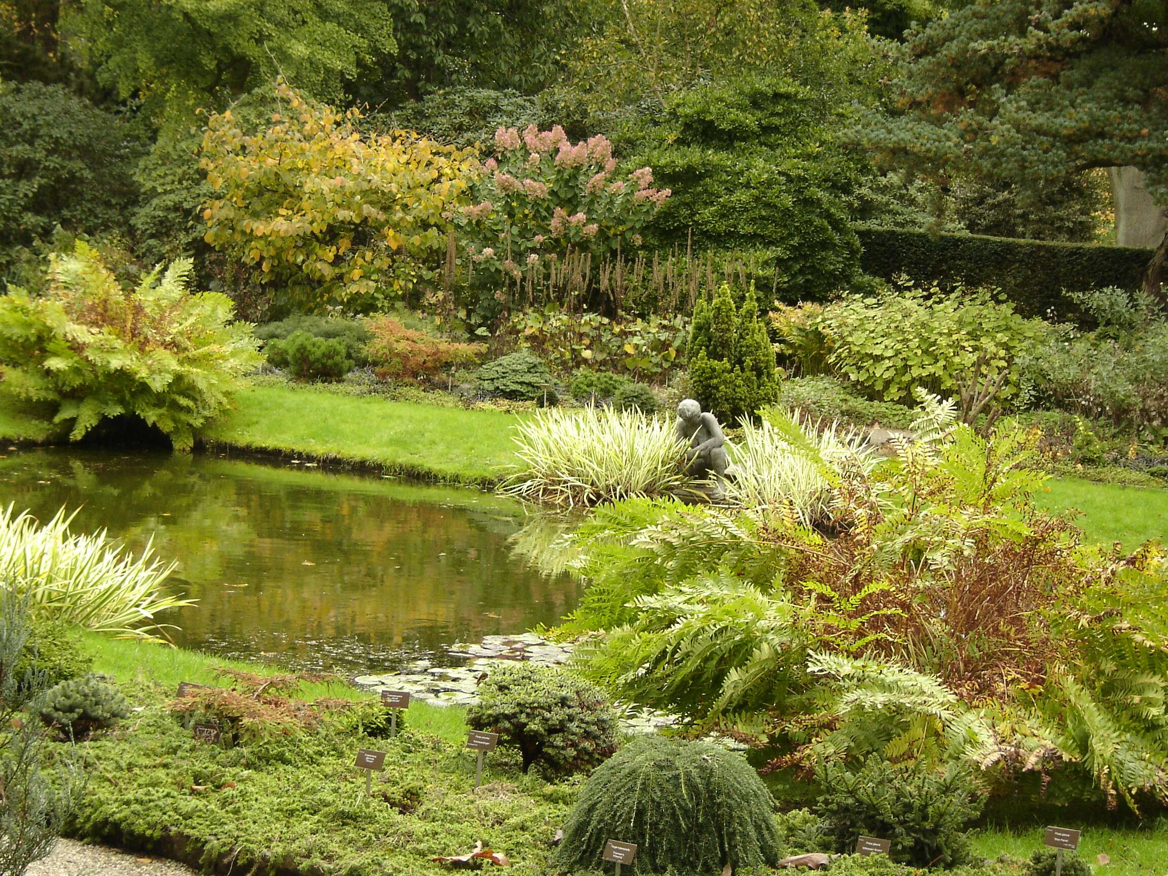 Goldfish Pond at Arboretum Trompenburg (Rotterdam, Netherlands)